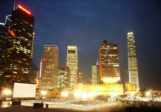 Open-Air-Cinema with giant inflatable screen (AIRSCREEN)